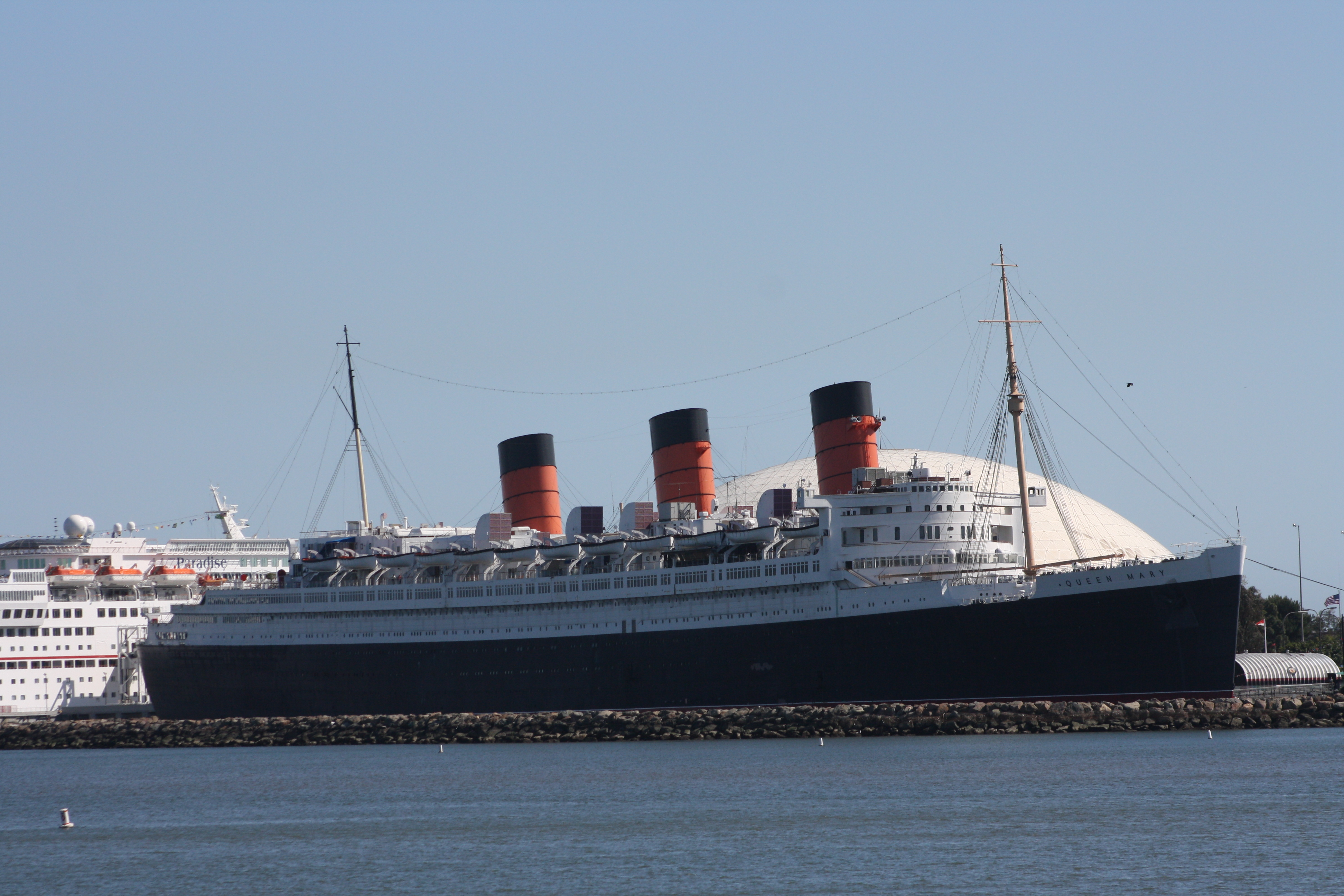 Long Beach Harbor